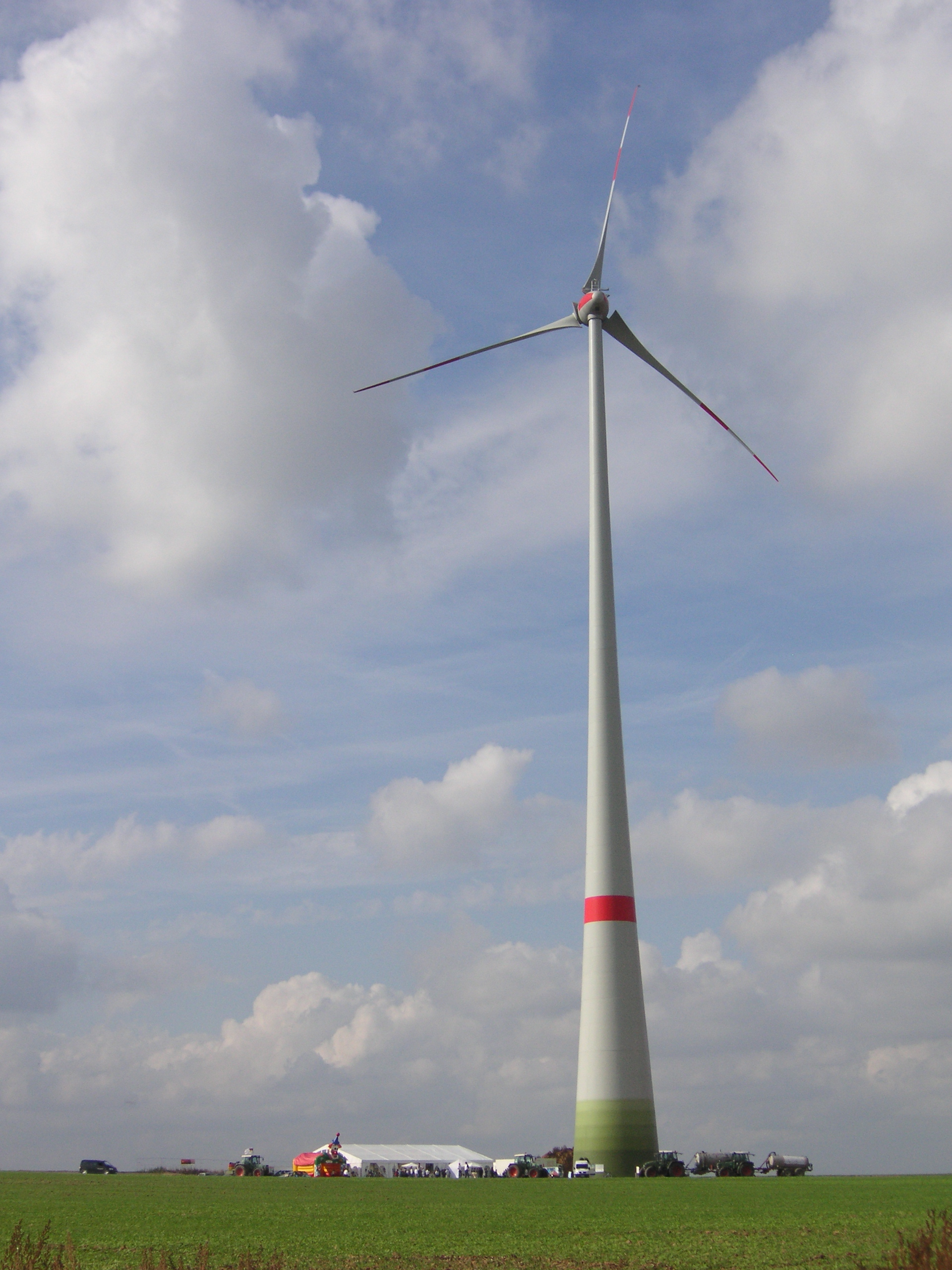 Wind power plant near Sommerhausen (Bavaria, Germany). This is a Enercon E-82.